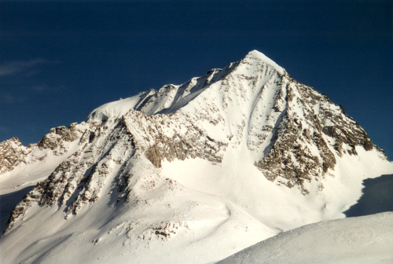 Hochgall (Rieserferner group) in the Alps in Italia, near to border of Austria, as seen from west